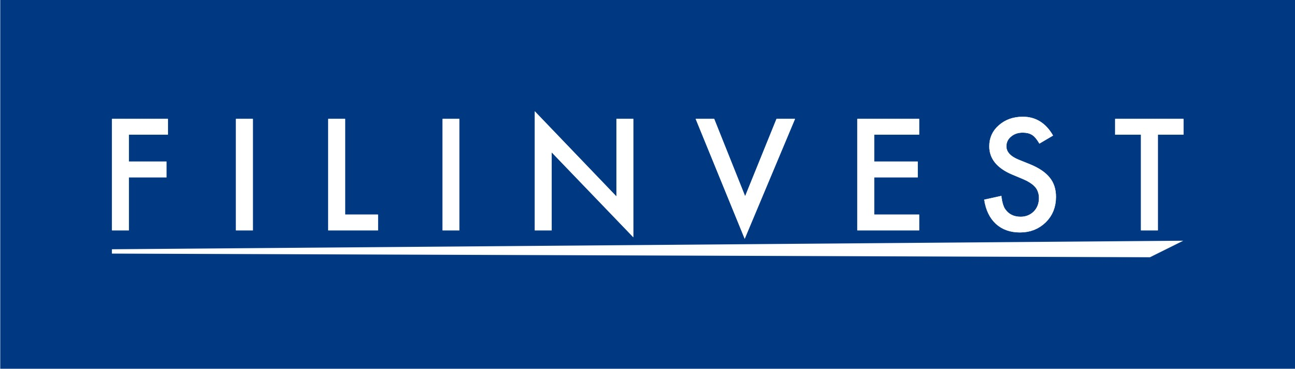 The logo of Filinvest Development Corporation